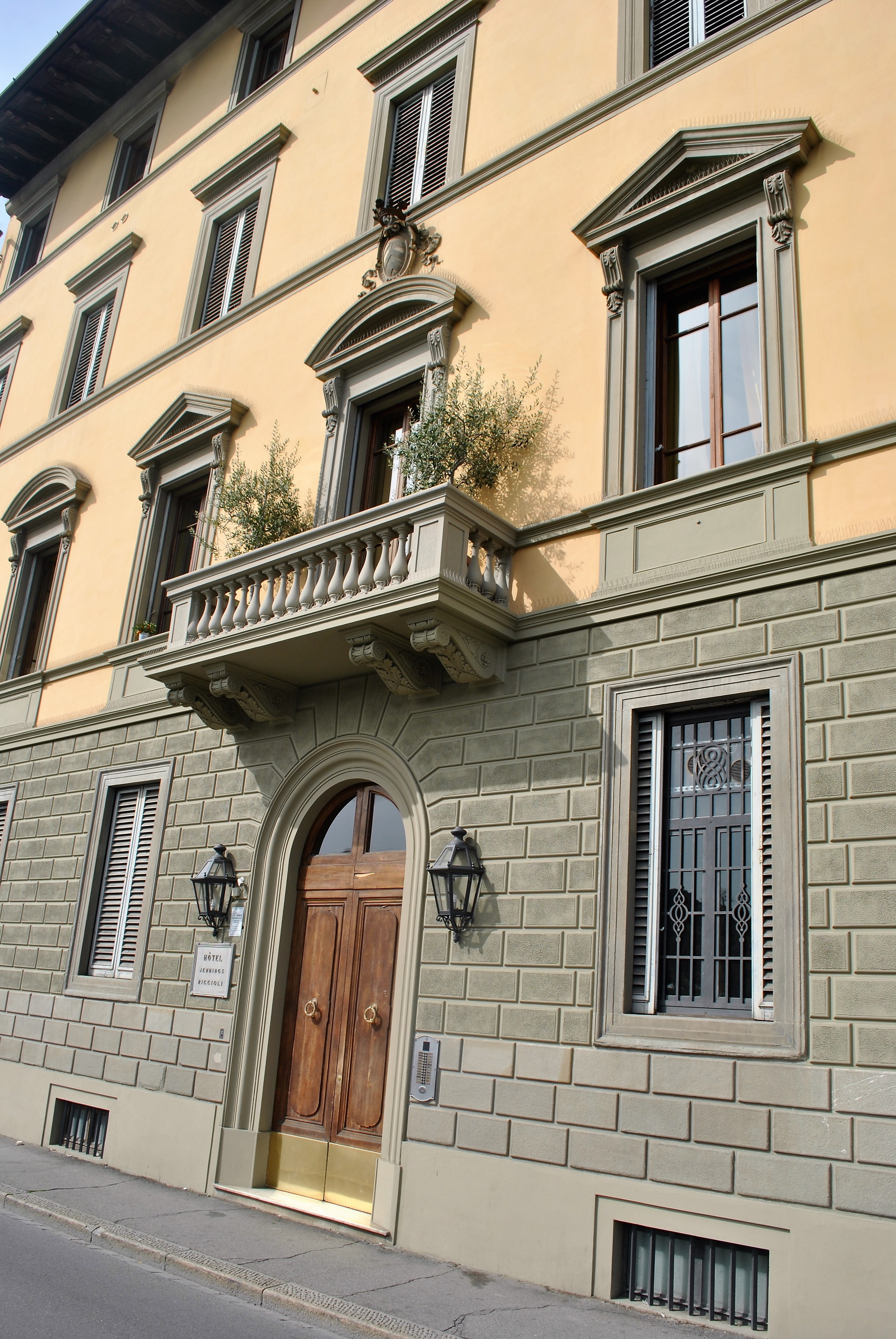 Image originally published in Queer Places: Retracing the Steps of LGBTQ people around the World Authored by Elisa Rolle